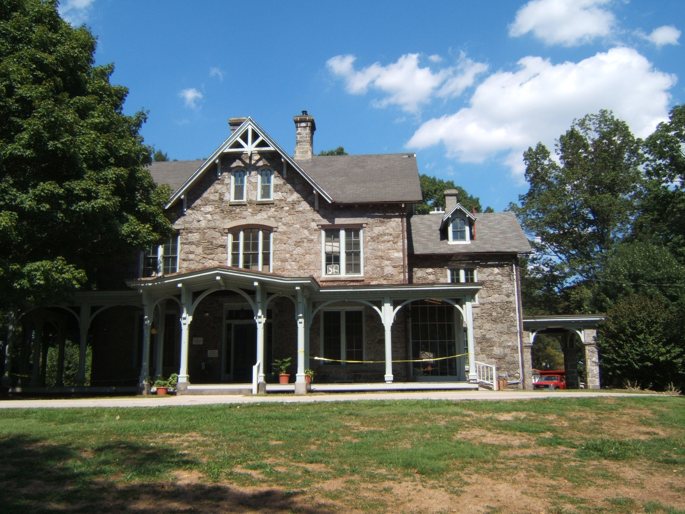 Francis Cope House, 1 Awbury Road, Philadelphia, Pennnsylvania 19138-1505. Built 1860, now offices of the Awbury Arboretum. Front view.